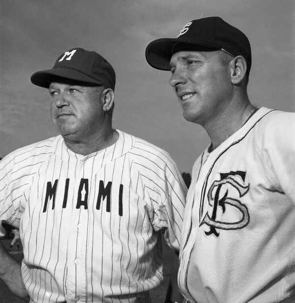 Persistent URL: Local call number: TD00331A Title: University of Miami baseball coach Jimmie Foxx with FSU coach Danny Litwhiler in Tallahassee, Florida Date: April 18, 1957 Physical descrip: 1 photonegative - b&w - 60 mm. Series Title: Tallahassee Democrat Collection Repository: State Library and Archives of Florida 500 S. Bronough St., Tallahassee, FL, 32399-0250 USA, Contact: 850.245.6700